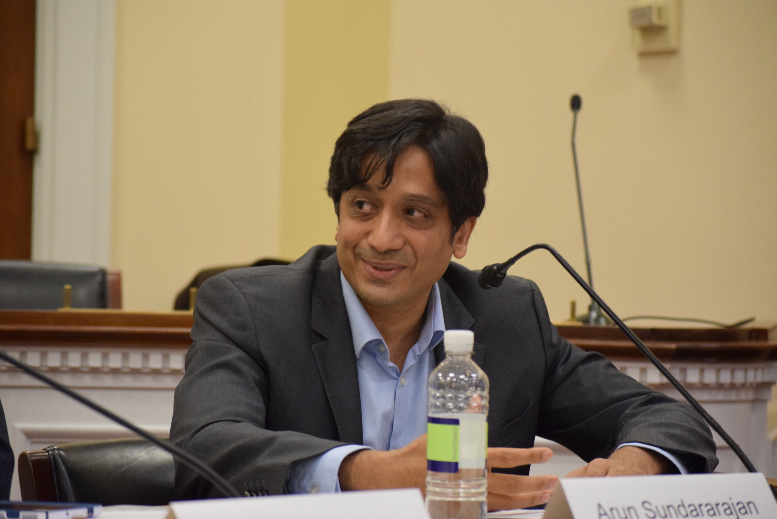 Professor Sundararajan of NYU Stern School of Business Congressional Internet Caucus Advisory Committee panel "Should Congress be Caring About Sharing?" on December 8, 2014.